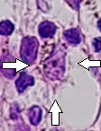 Melanophage